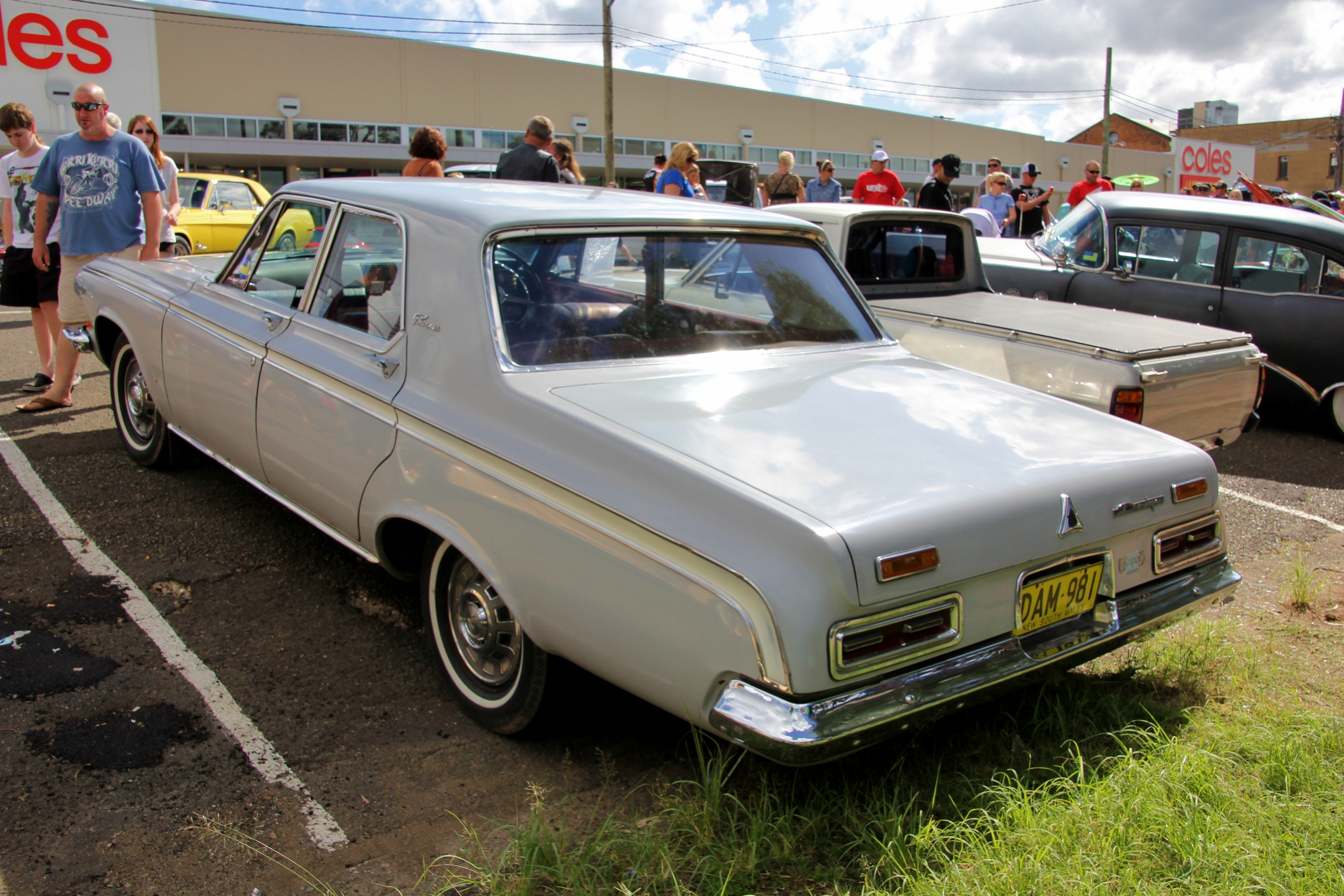 1963 Dodge TD2 Phoenix sedan. Taken at the 2012 Kurri Kurri Nostalgia Festival, held in Kurri Kurri, New South Wales.